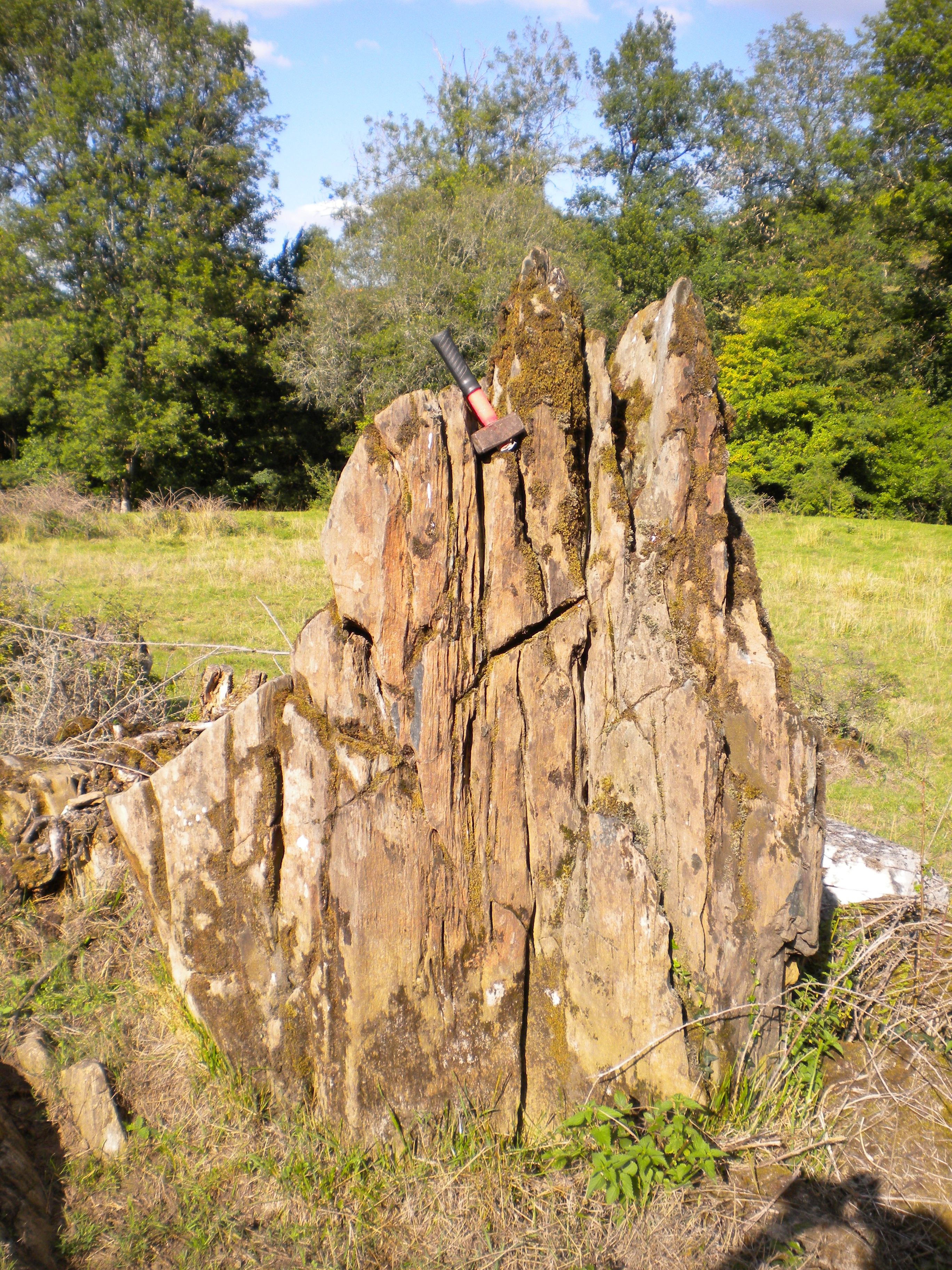 Metaharzburgite from La Rebière, Saint-Martin-de-Fressengeas, Dordogne, France, showing the characteristic orange-brown weathering of peridotites and a vertical foliation.